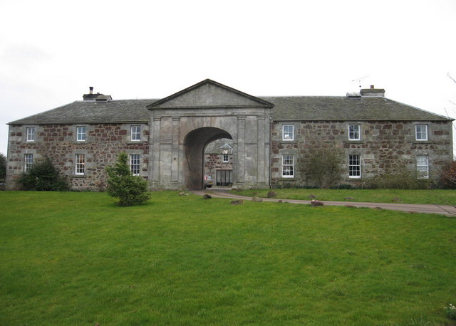 Newbyth Stables. Originally stables for Newbyth Mansion House NT5880, now residential.